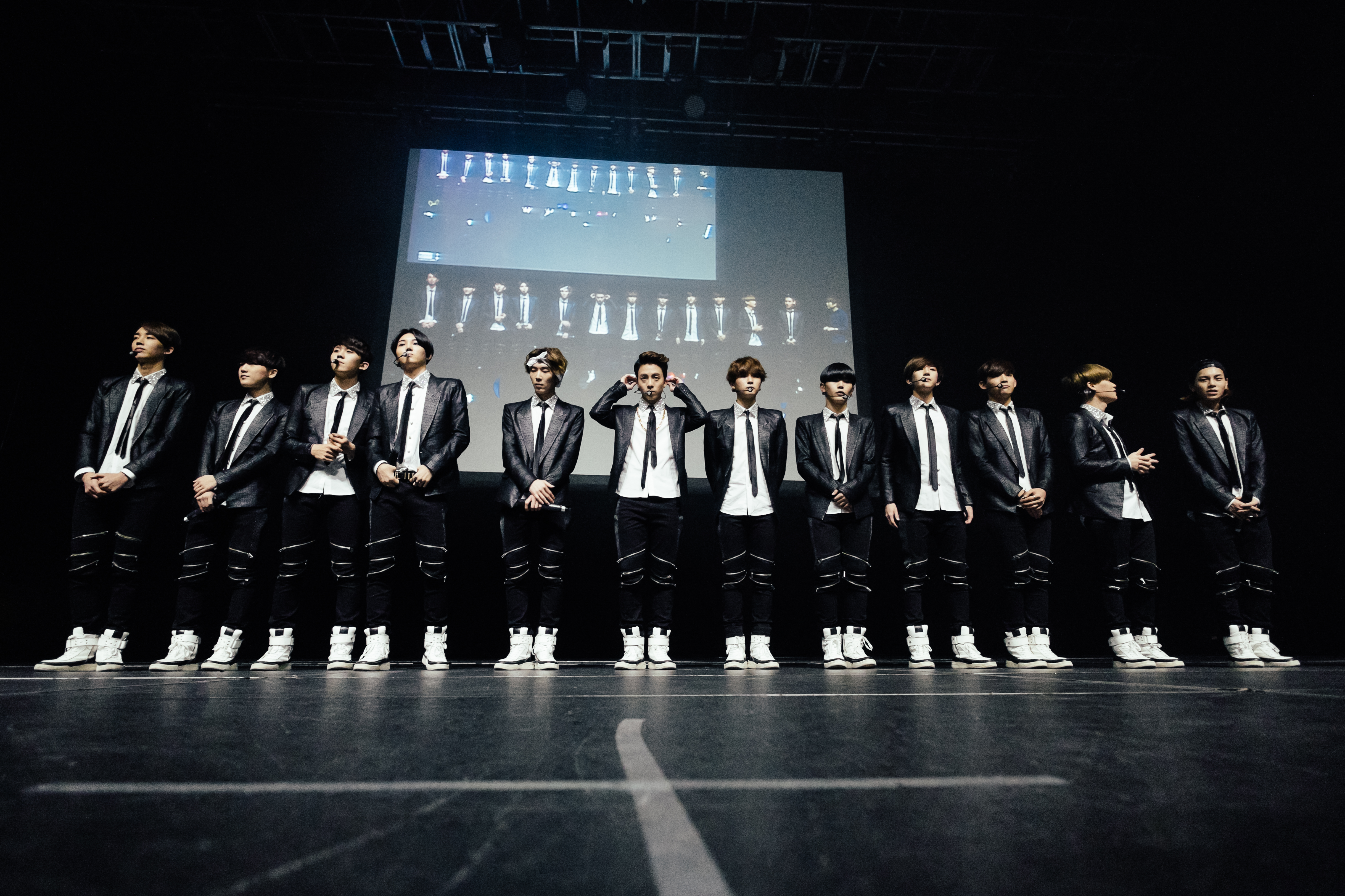 Topp Dogg, World ToppKlass Tour, Bayou Music Center, Houston, Texas, 2015